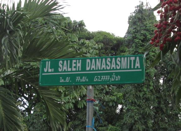 An example of street name sign in Bogor which uses dual writing systems (Roman and Sundanese).